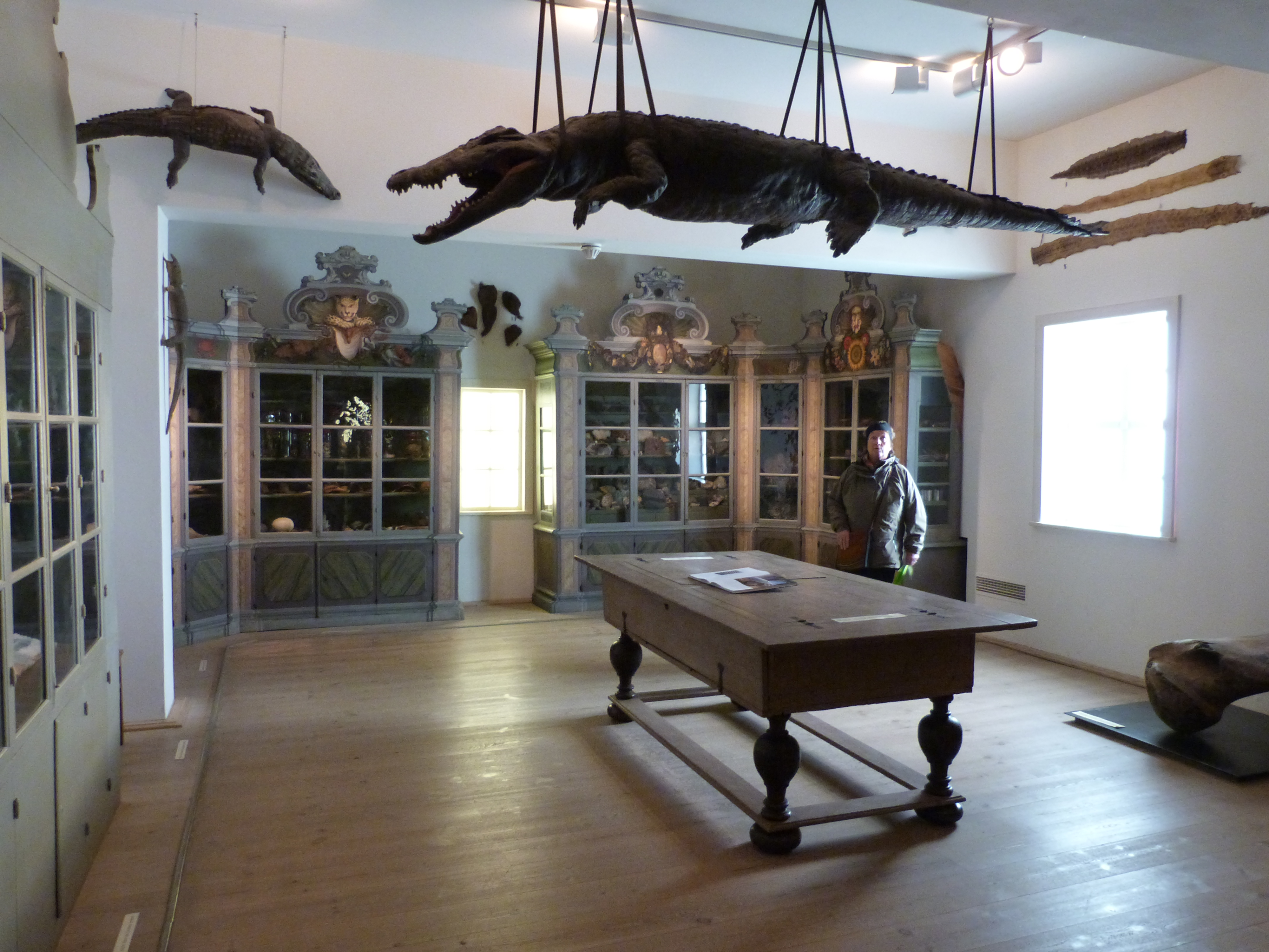 Kunst- und Naturalienkammer, furnished in the year 1741 from Gottfried August Gründler, in the Historic orphanage of the Francke foundations, Halle (Saale)